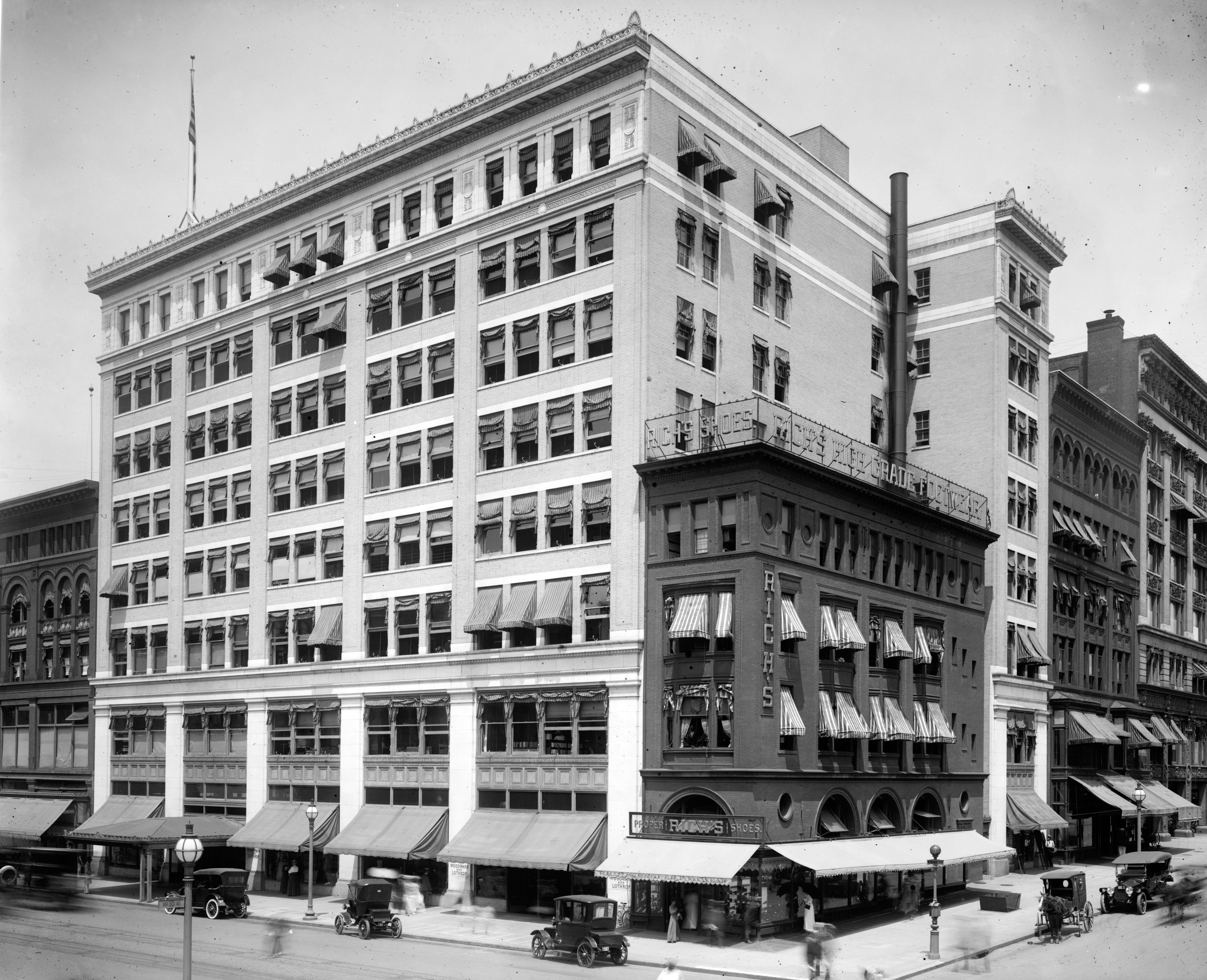 Exterior view of the Woodward & Lothrop flagship store in Washington, looking NW from the intersection of 10th & F Streets NW. The smaller store inset into the corner is Rich's Shoes, which continued in business at the same location at least into the 1950s.